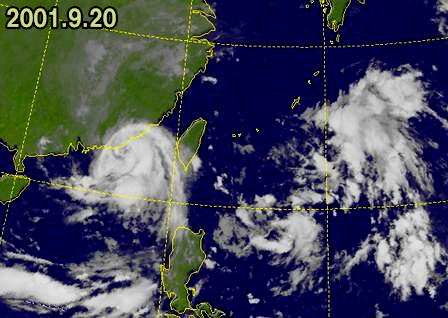 Typhoon Nari on September 20, 2001.